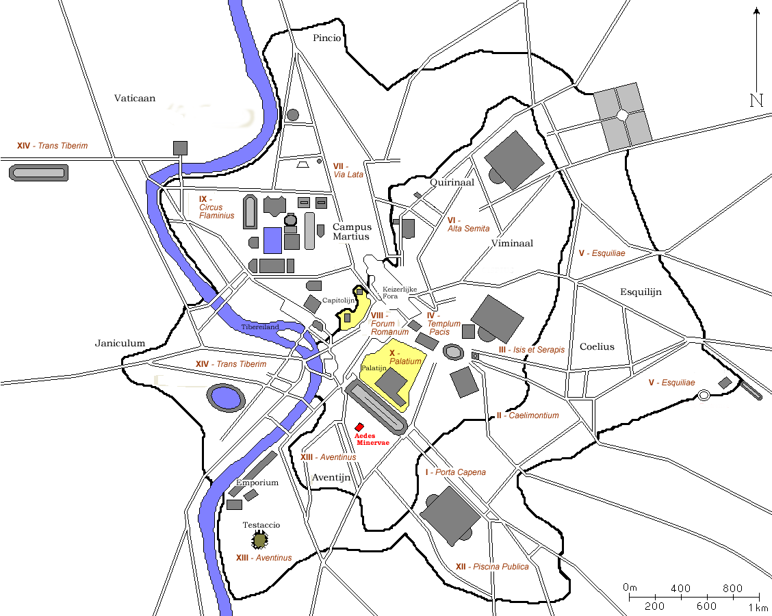 Location the tempel of Minerva on the Aventine on a map of ancient Rome